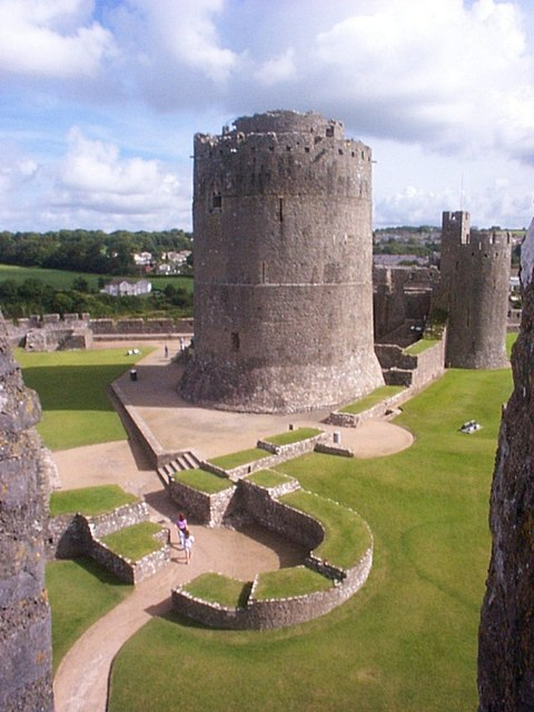 Pembroke Castle keep. The tower is 75 feet (23 metres) high, and has walls 19 feet (6 metres) thick at the base to support its weight.